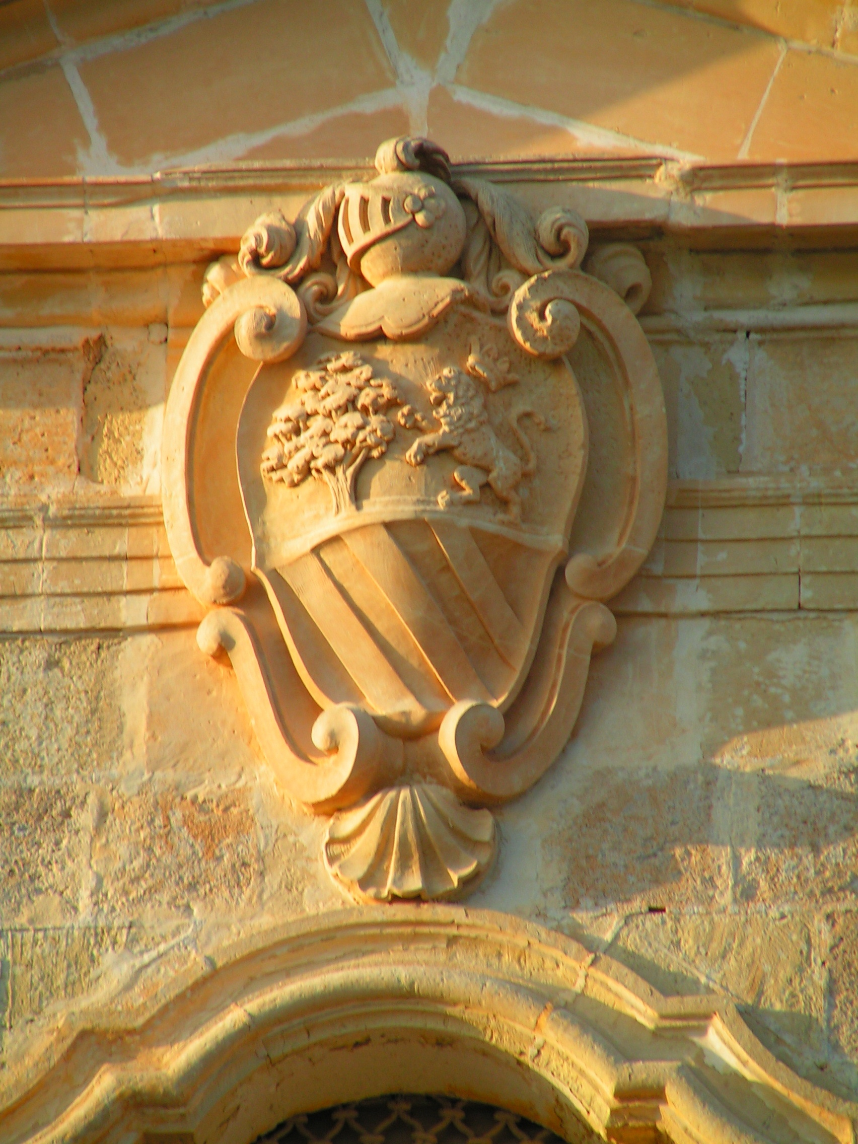 Chapel of the Madonna of Mount Carmel This media is about Maltese cultural property with inventory number 02183.